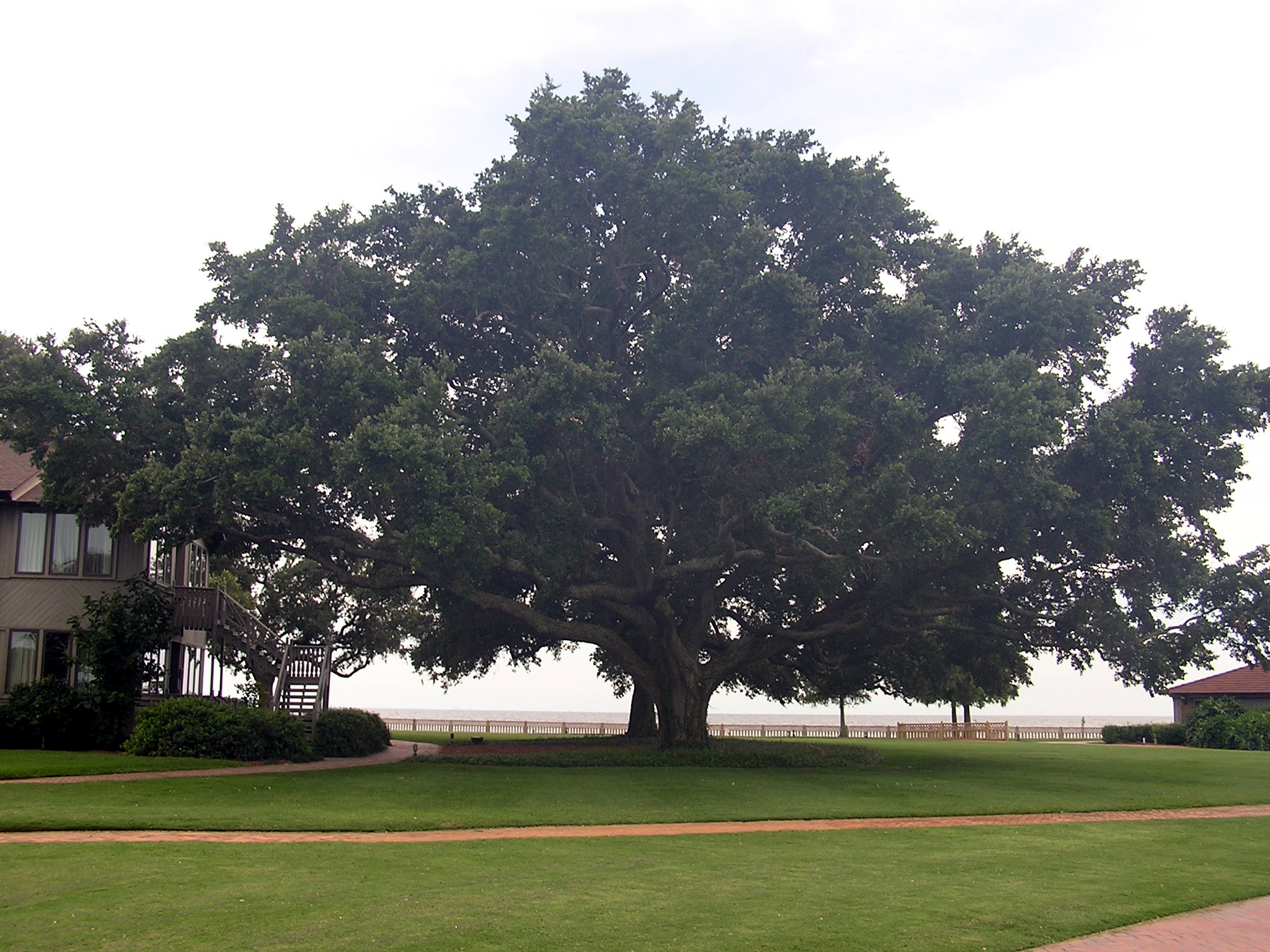 Oak tree: Point Clear, Ala.